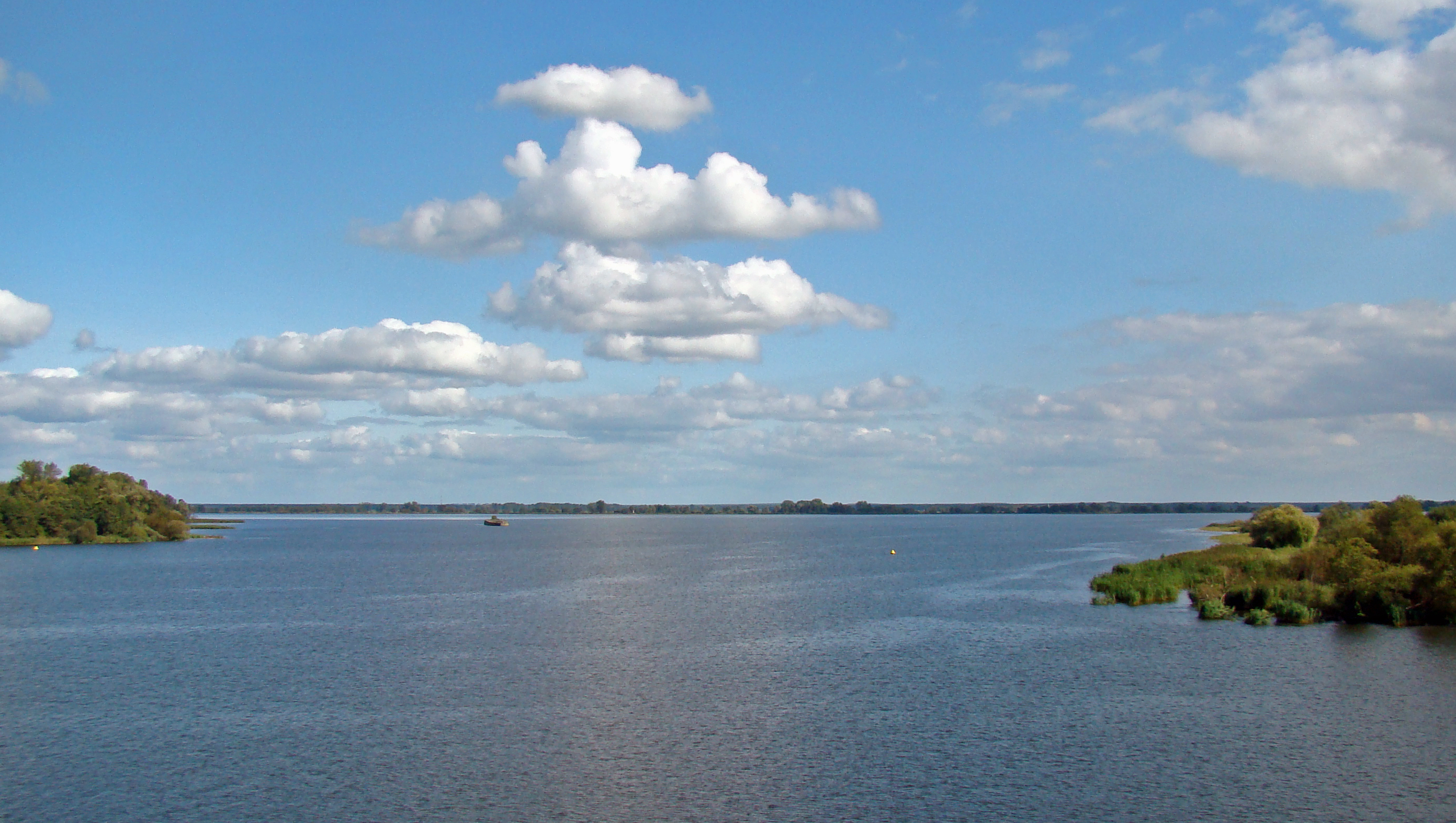 Inski Nurt, Poland